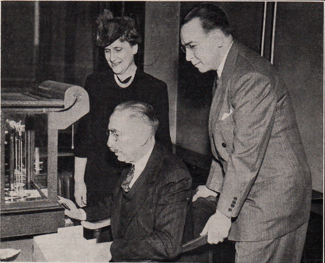 Mint Director Nellie Tayloe Ross (left) looks on as Ralph Smith of the Bureau of Standards checks a coin during the 1942 United States Assay Commission meeting. Vernon Brown, also a member like Smith and curator of the Chase Manhattan Money Museum, is at right.